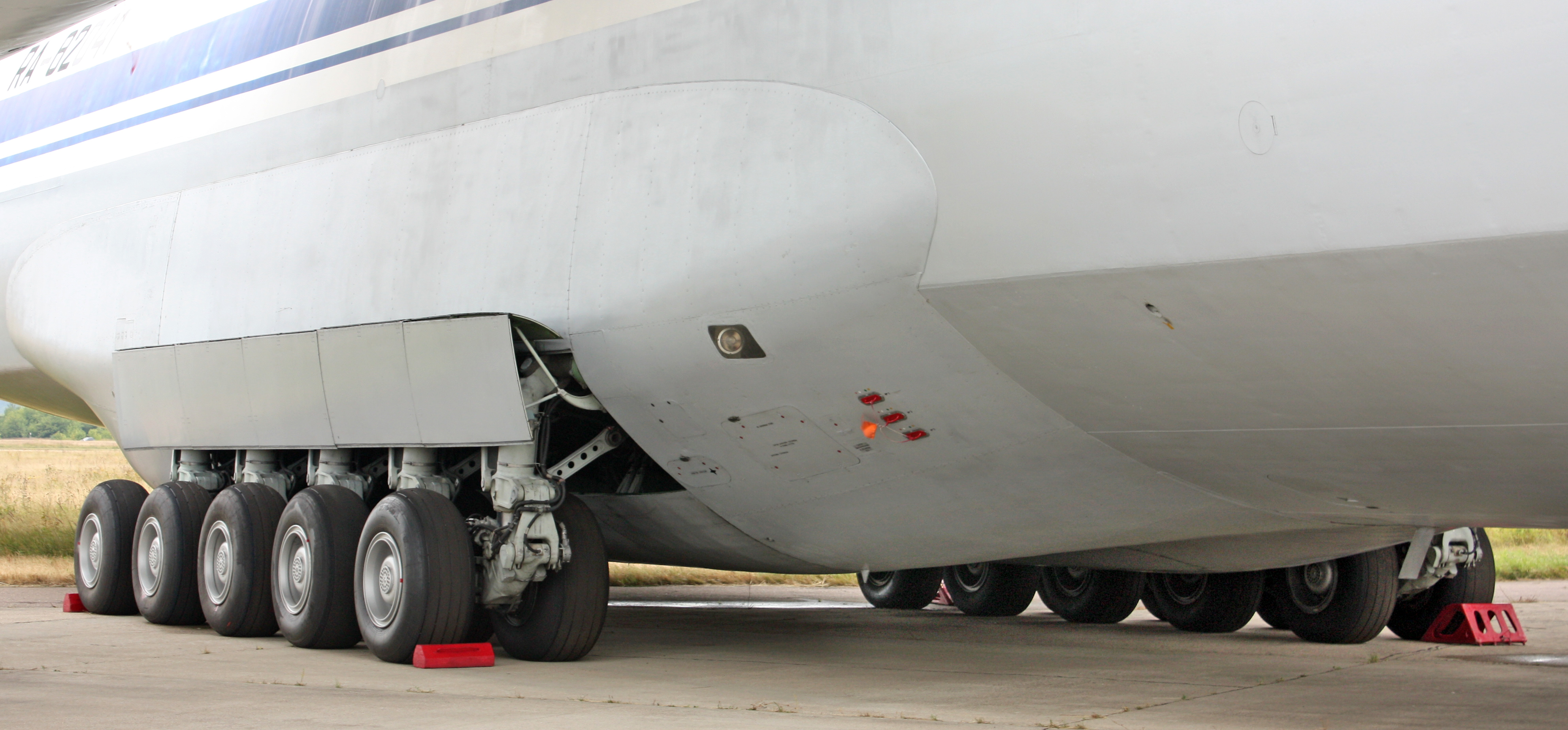 Antonov An-124 "Ruslan". The basic chassis (The international aerospace salon MAKS-2009)